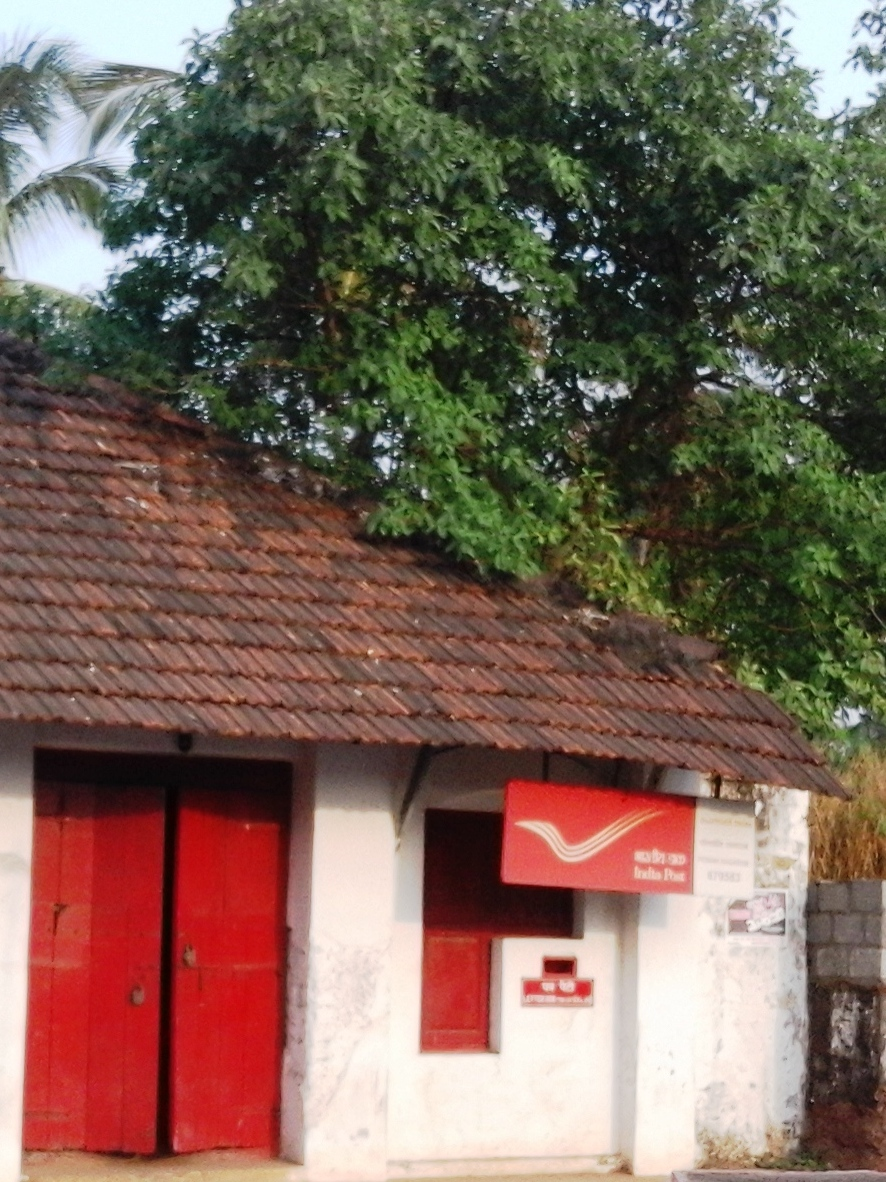 Ponnani, Malappuram Dt, Kerala, India